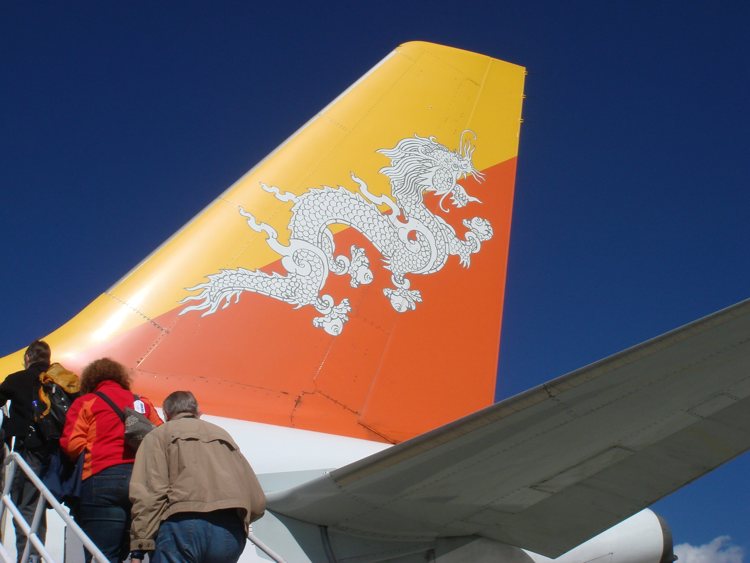 Boarding